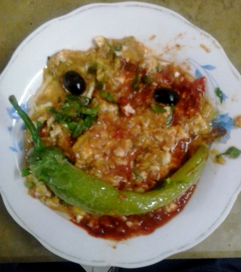 This is an image of food from Tunisia